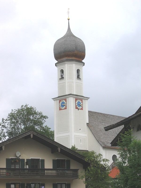 Gmund am Tegernsee, bell tower of St Giles' Parish Church facing north-east.